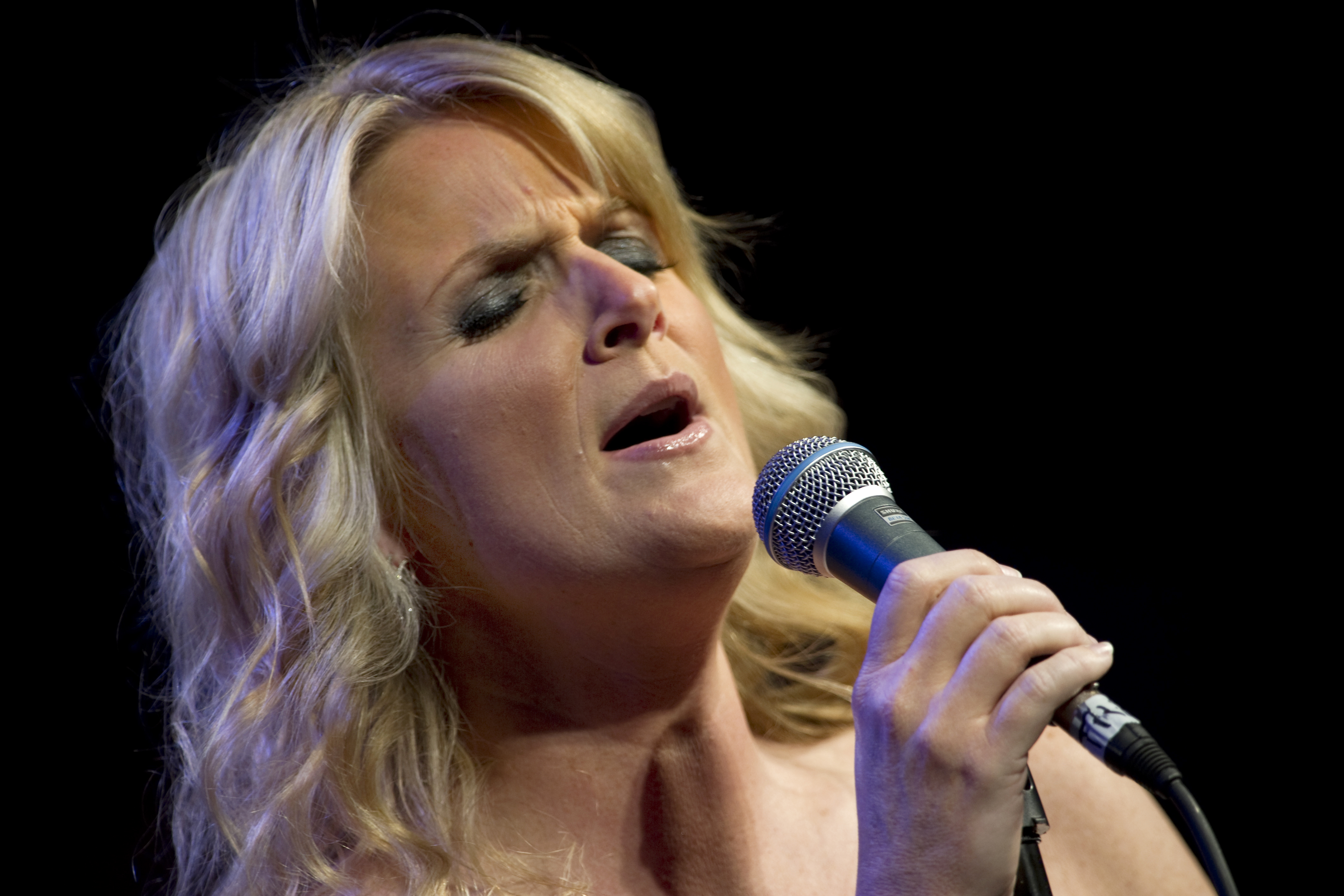 Country music legend Trisha Yearwood performs at the USO Gala in the Marriott Wardman Park Hotel, Washington, D.C., USA, Oct. 7, 2010.